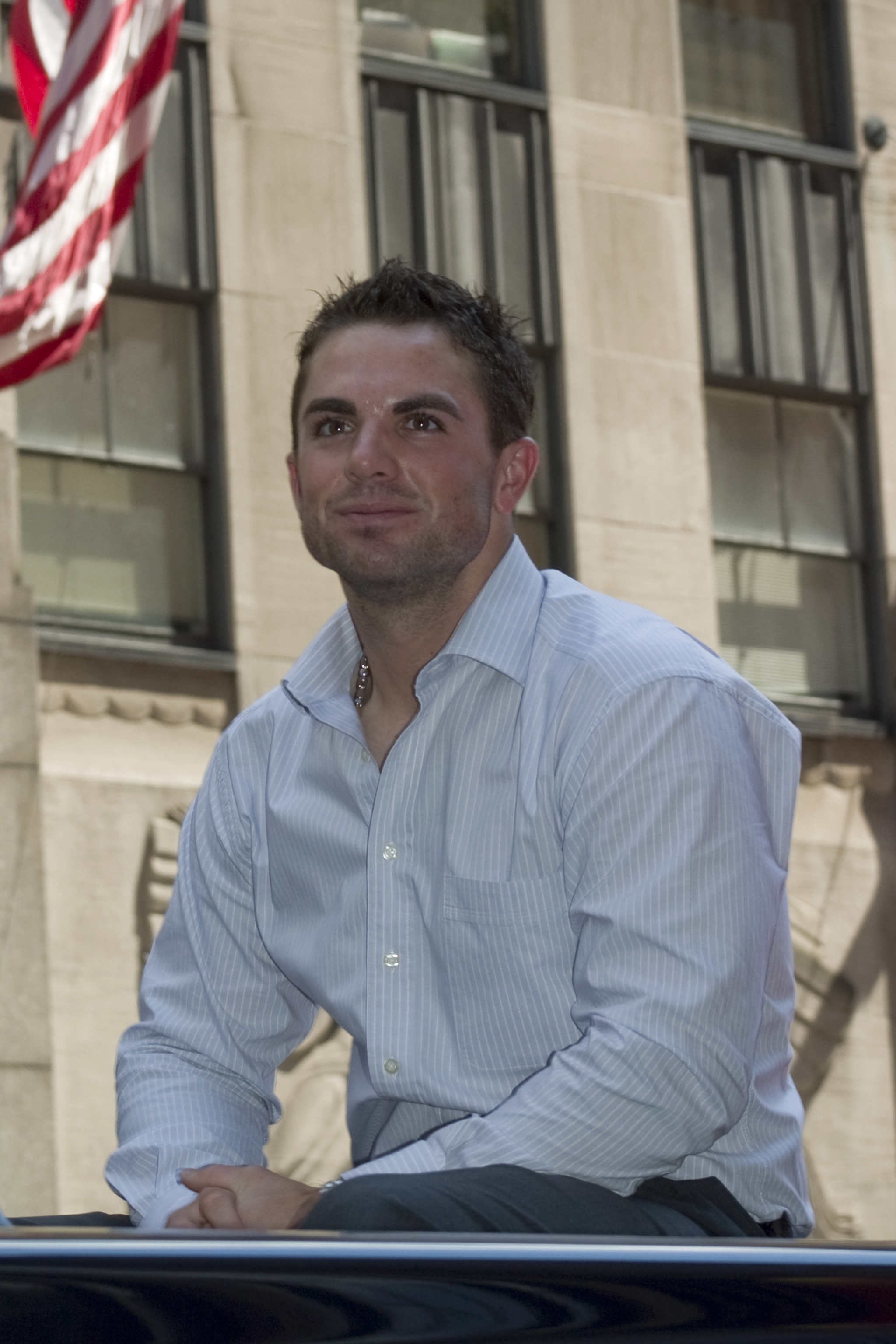 Baseball player David Wright. © Rubenstein, photographer Martyna Borkowski